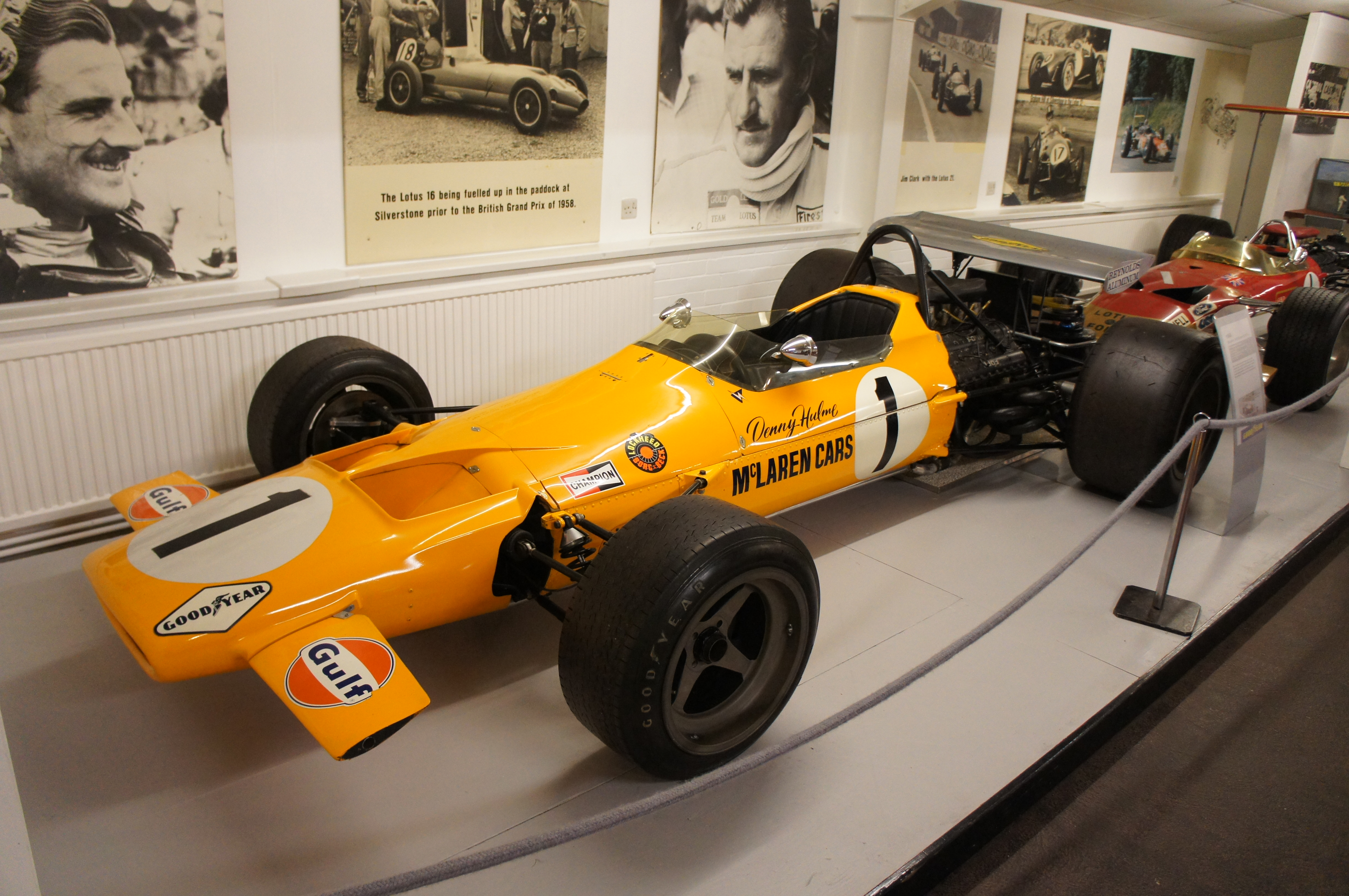 The McLaren M7A which is currently housed in the Donington Park Grand Prix Collection.